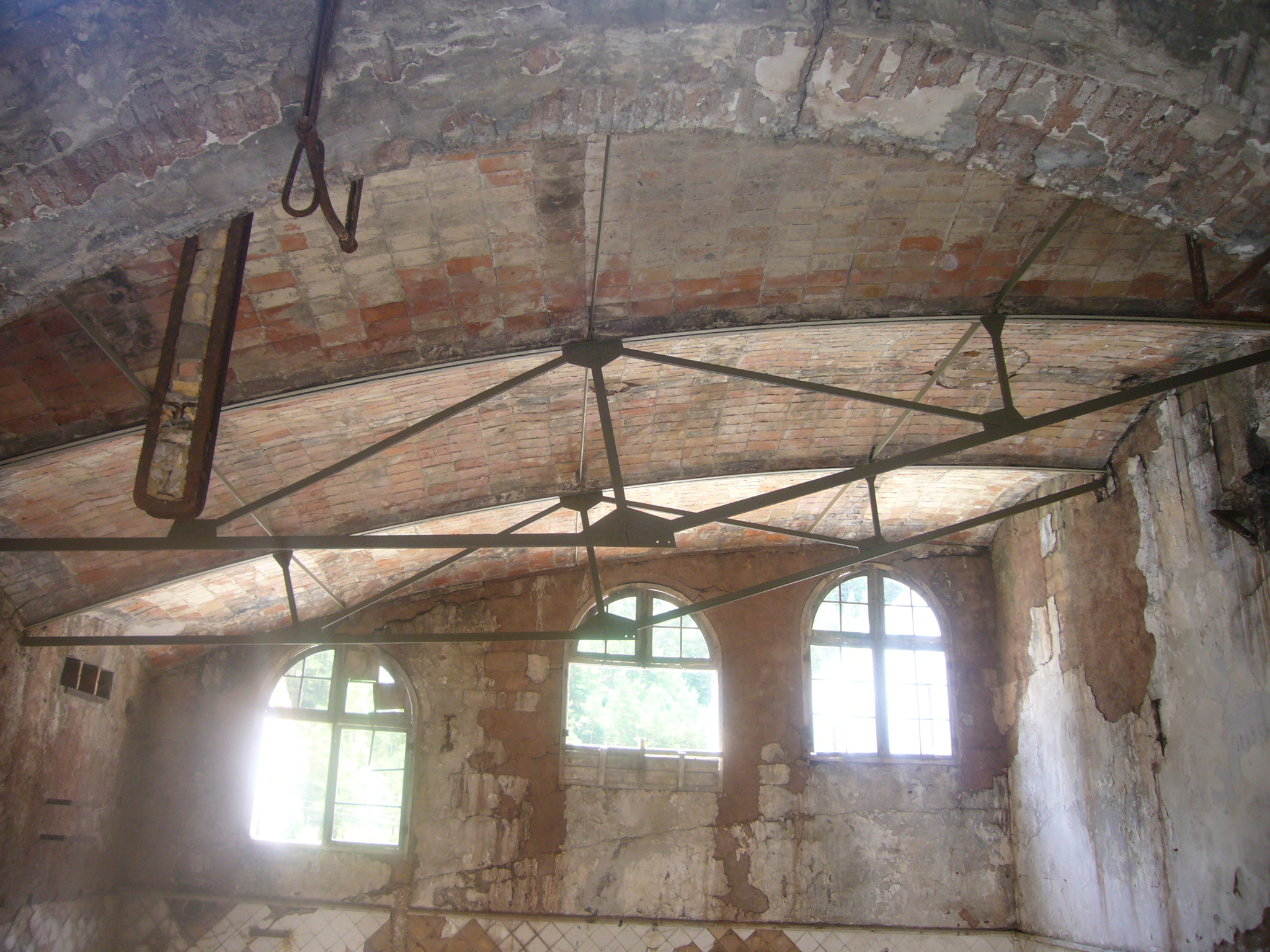 Roof, with Catalan vault